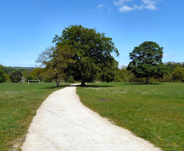 Brabyns Park Footpath from Marple towards the Iron Bridge.